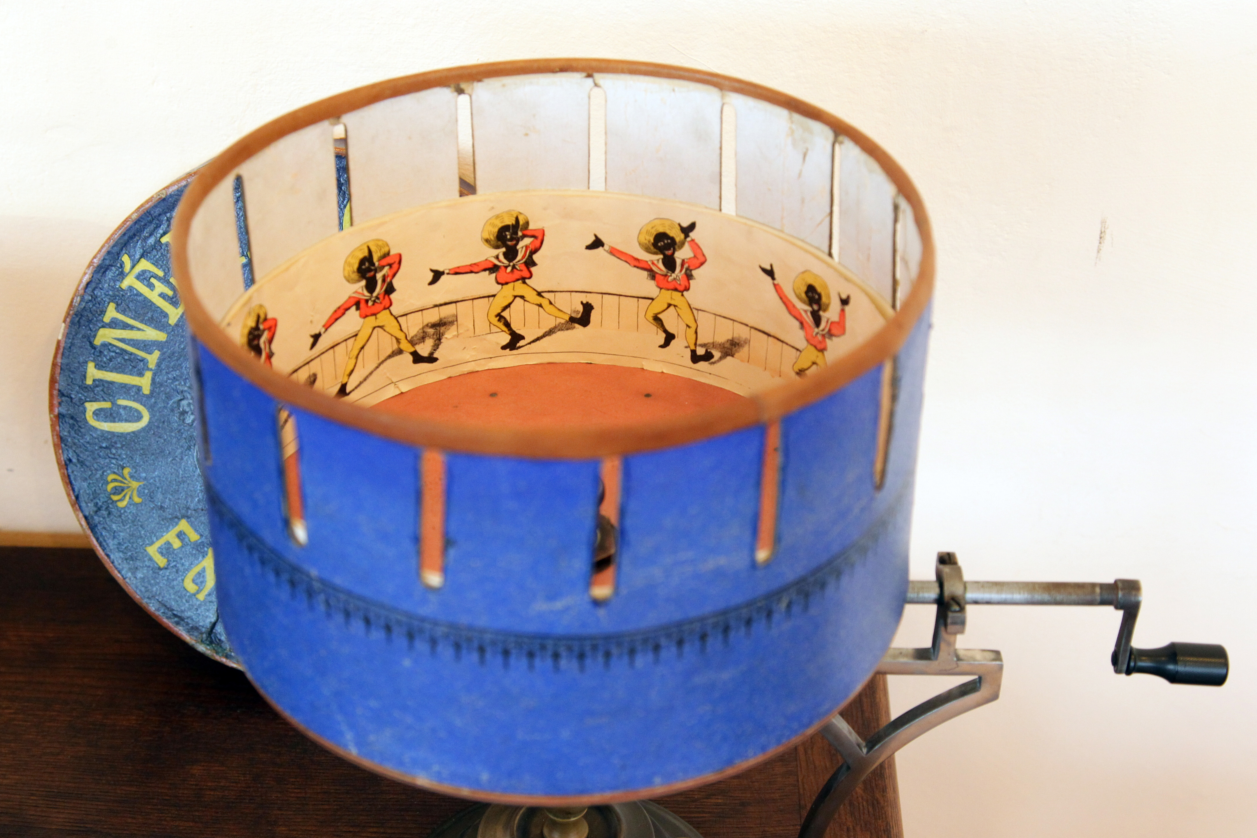 Zoetrope from Technical Museum of Nizhny Novgorod.